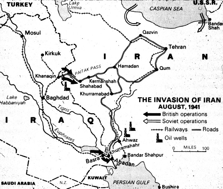 Map - Britisch and USSR invade Iran